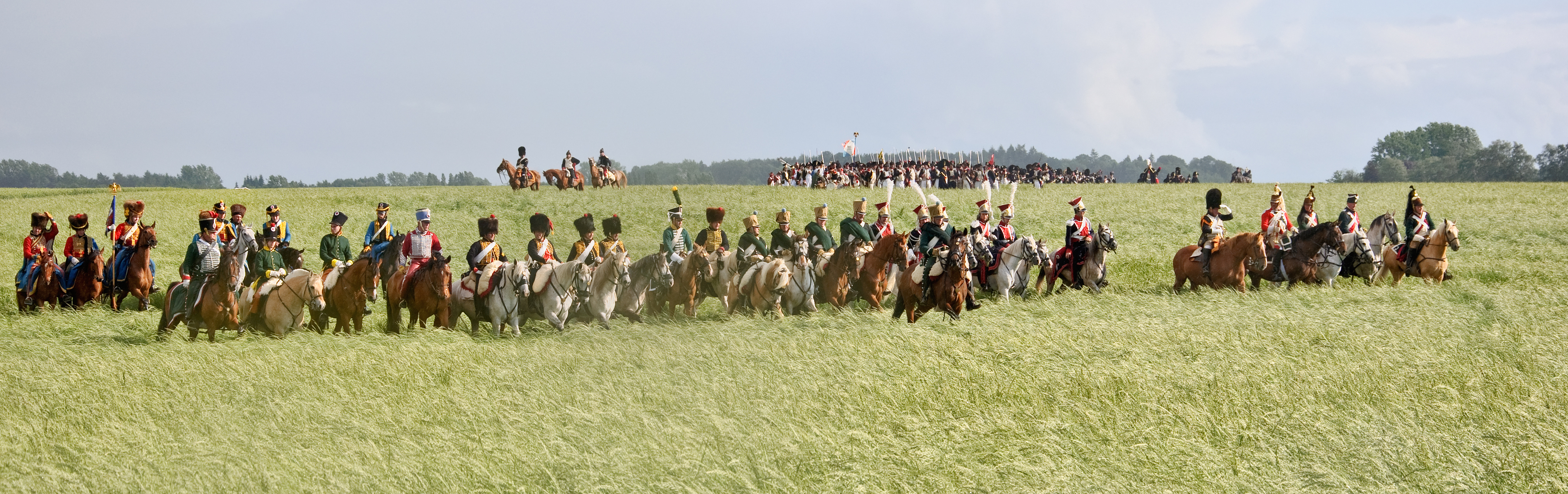 Sample of the French cavalry - Re-enactment of the battle of Waterloo (1815), June 2011, Waterloo, Belgium.